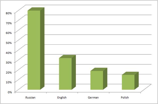 The most commonly known foreign languages in Lithuania in 2005. According to Eurostat